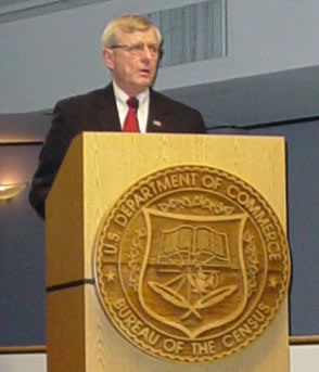 This is a crop of Image:WolffOtto.jpg. A photo of former Acting Commerce Secretary Otto J. Wolff (2009), taken at a 2004 Commerce Dept. Acquisition Conference in 2004.